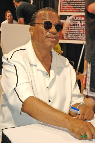 Billy Dee Williams at Comic Con 2005.